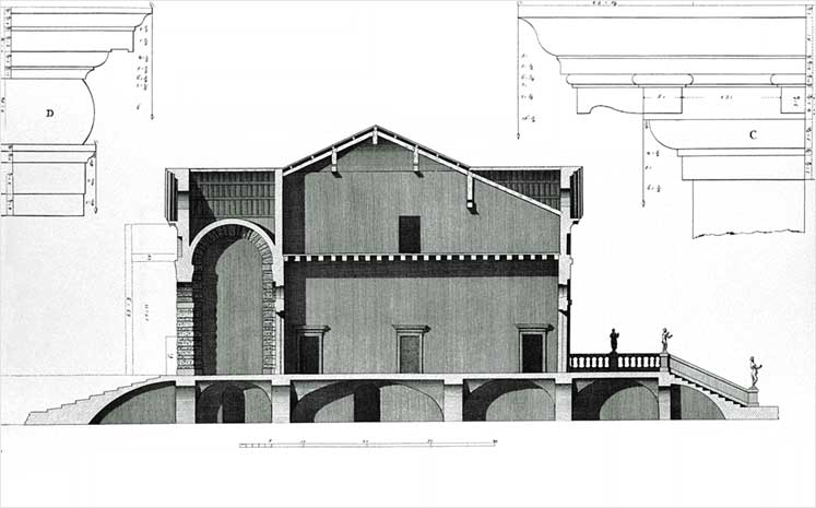 Villa Caldogno, province of Vicenza, by Andrea Palladio. Drawing by Ottavio Bertotti Scamozzi, 1778.